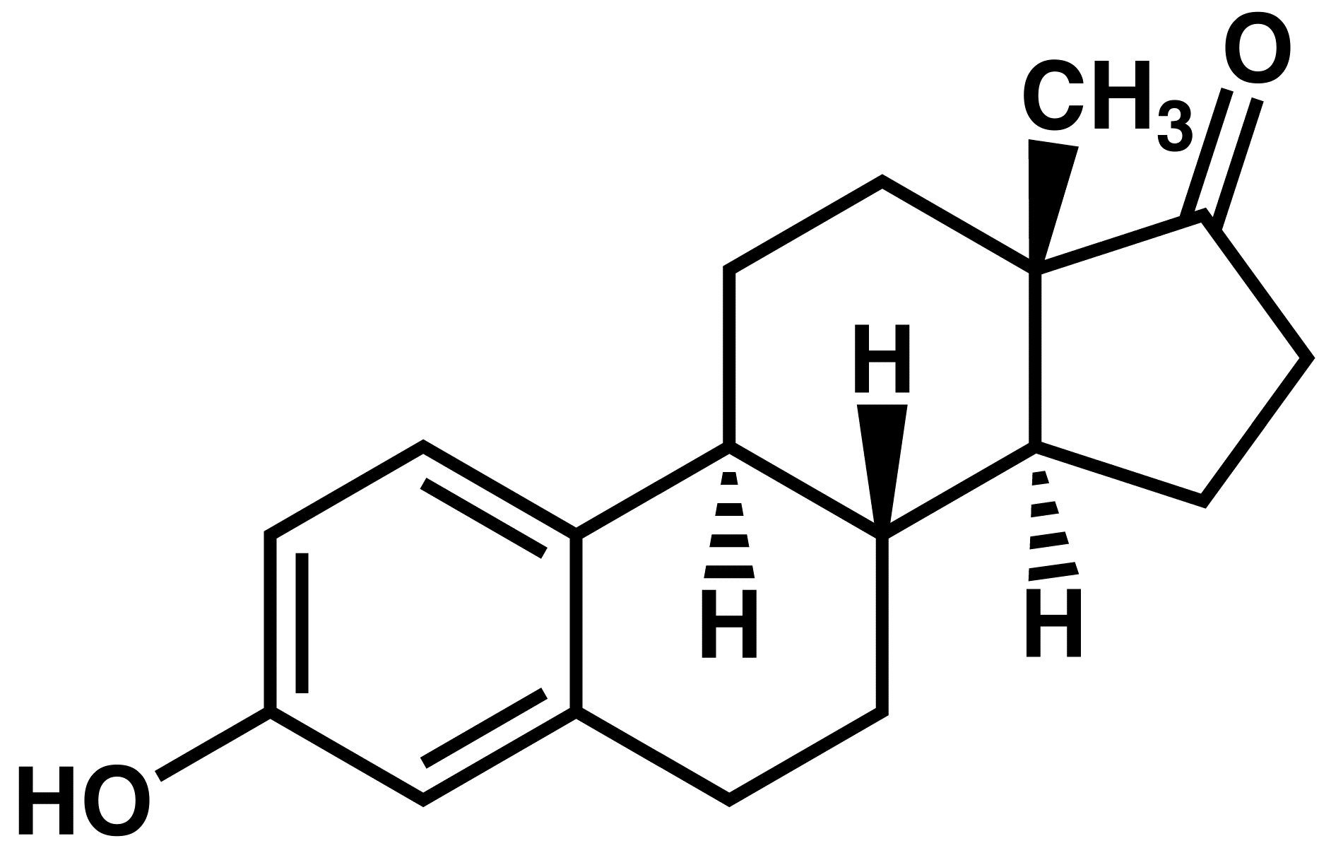 Estrone. Created myself using Cambridgesoft ChemDraw